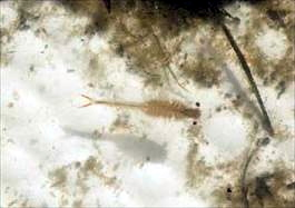 Streptocephalus woottoni — Riverside fairy shrimp. Endemic to California chaparral and woodlands habitats, 5 sites in Southern California and 2 in northern Baja California. Listed endangered species, USGS photo.